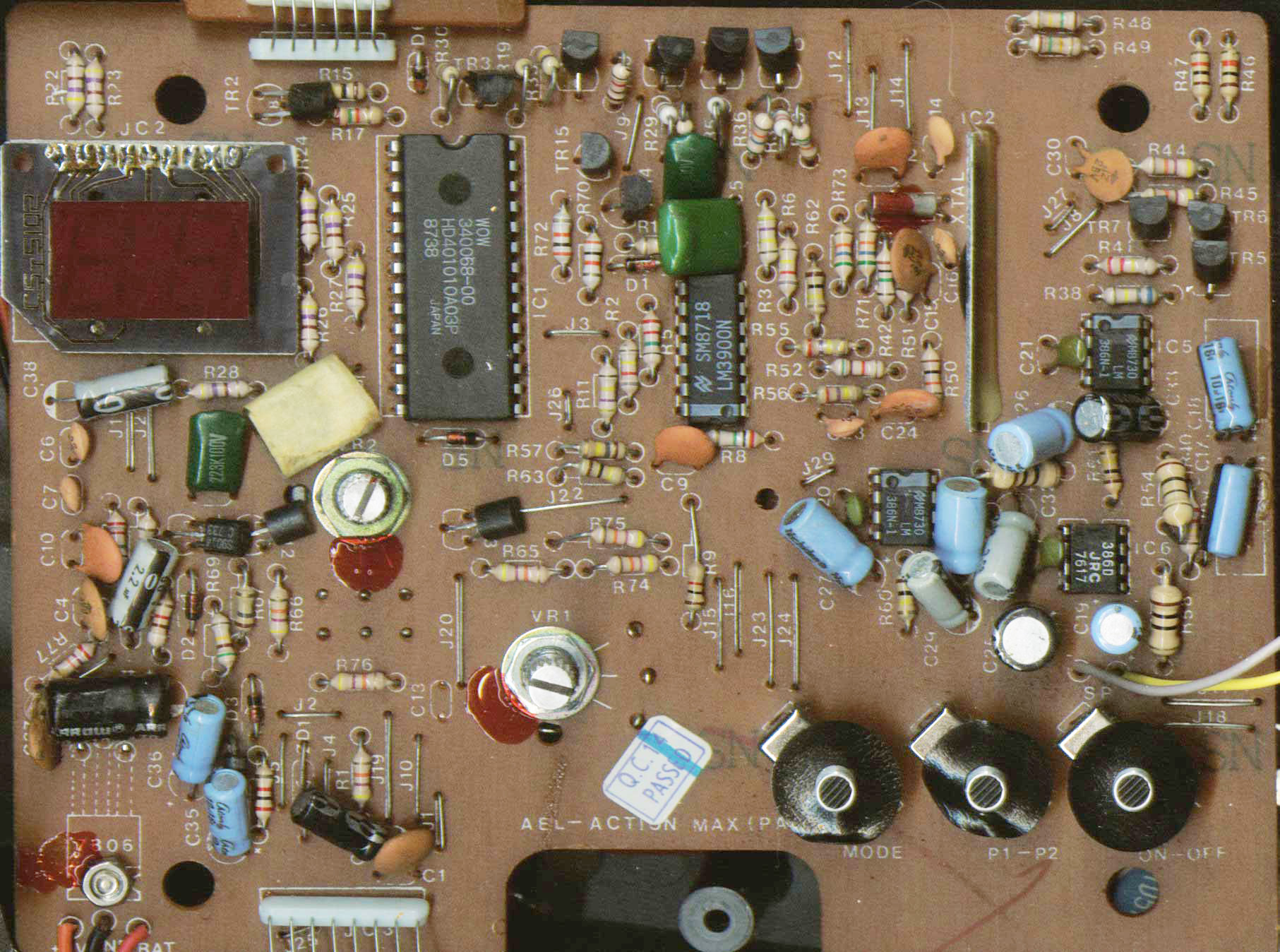 Worlds of Wonder Action Max (PAL) PCB scan.